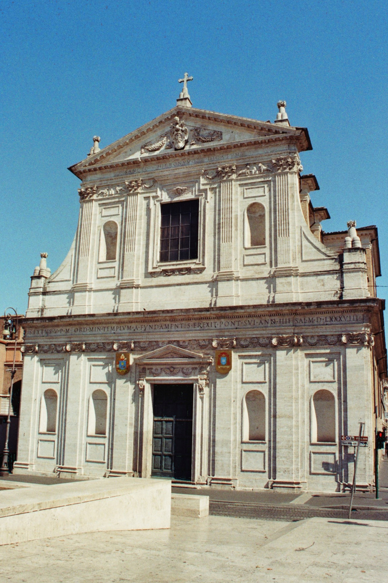 Roman Catholic church of St. Jerome of the Croats, national Croatian church in Rome